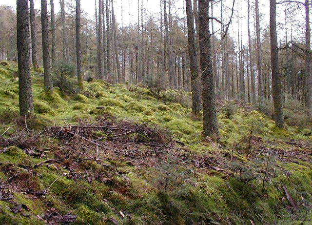 Ennerdale Forest A commercial forest due for felling under the Wild Ennerdale project. This is just west of Dodsgill Beck.